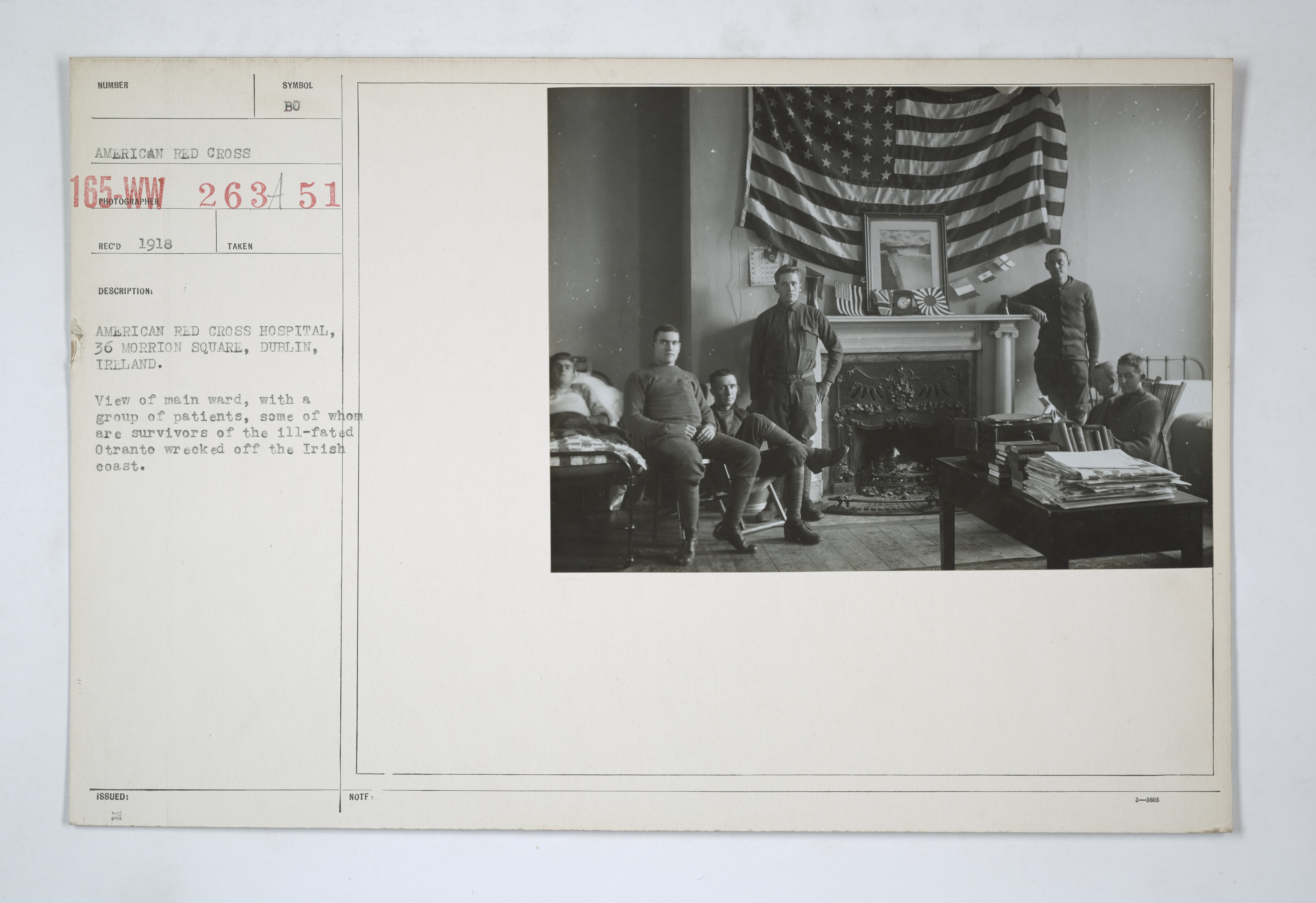 Scope and content: Original Caption: American Red Cross Hospital, 36 Morrion Square, Dublin, Ireland. View of main ward, with a group of patients, some of whom are survivors of the ill-fated Otranto wrecked off the Irish coast. Photographer: American Red Cross